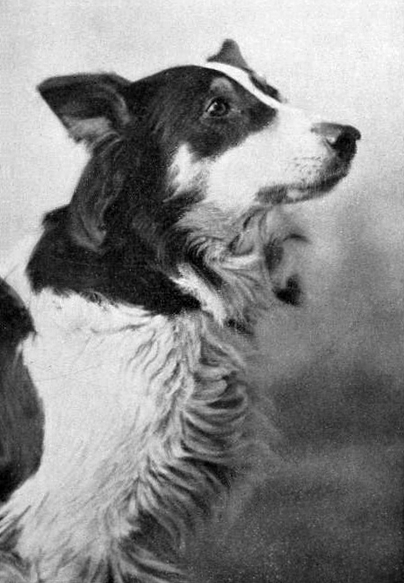 Photograph of Jean, the Vitagraph Dog